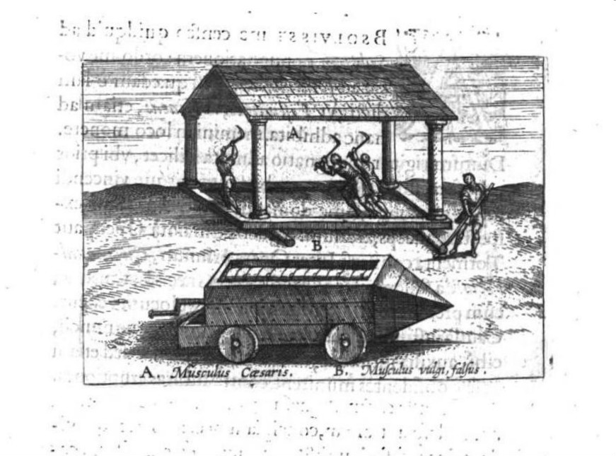 Roman Musculus